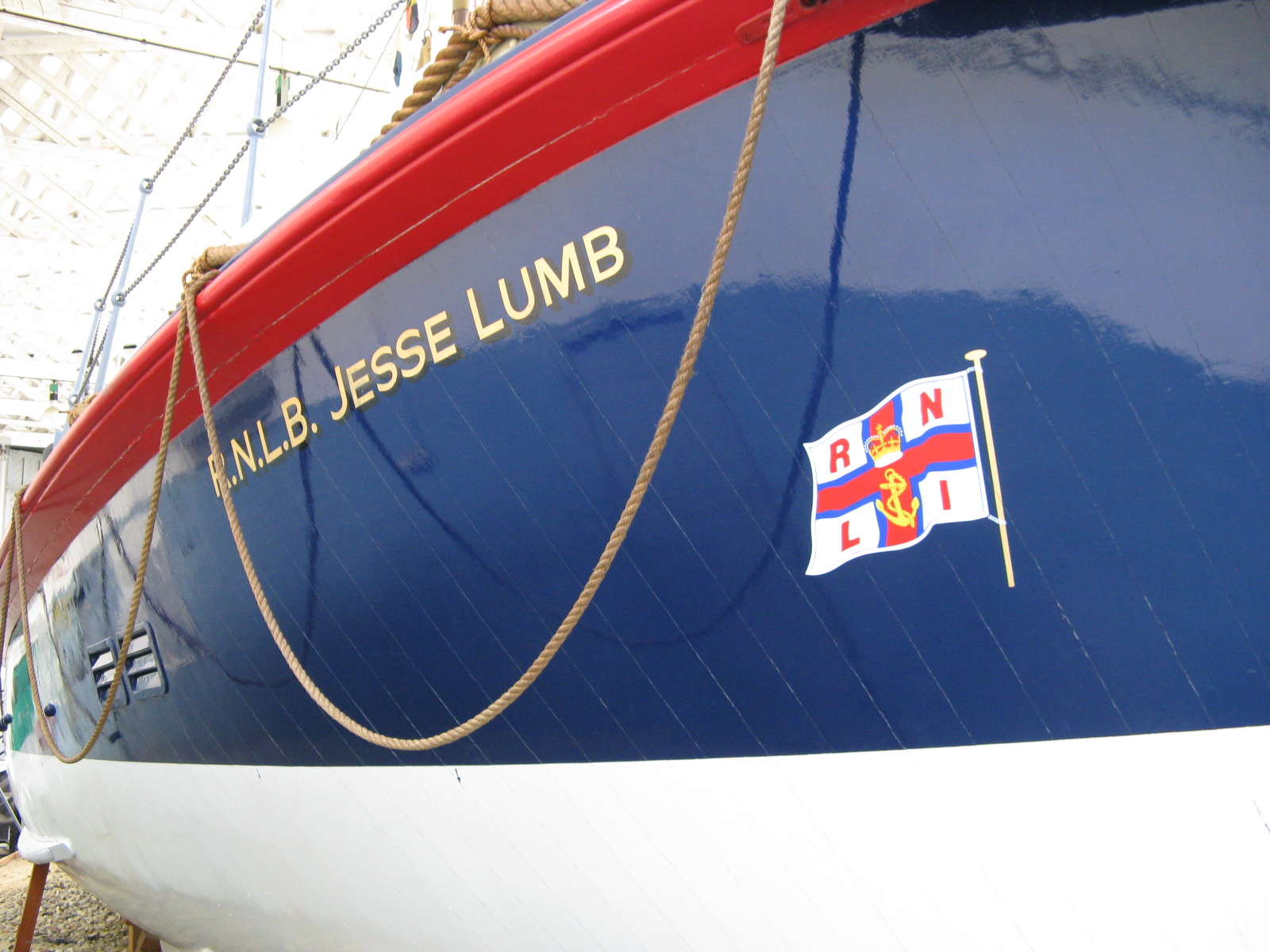 Starboard side view of the hull of the preserved historic lifeboat RNLB Jesse Lumb, on display at Imperial War Museum Duxford in the United Kingdom, showing her name.